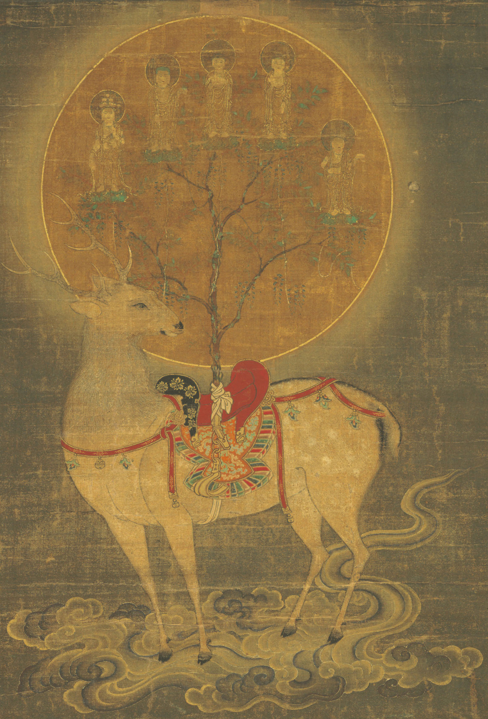 Kasuga Deer Mandala, Nara National Museum, Nara, Nara, Japan; new ICP as of 18 March 2019